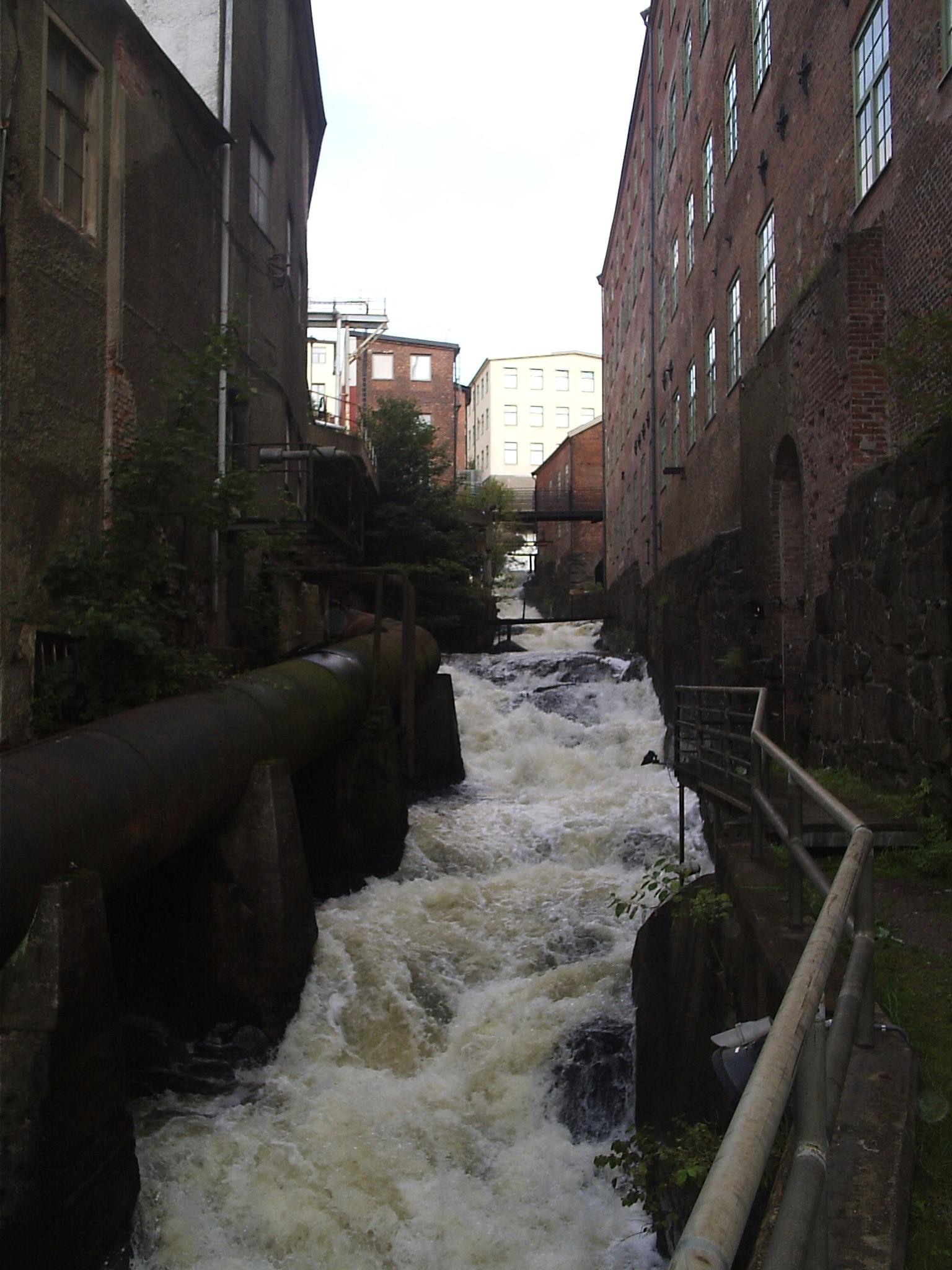 Photo by Harri Blomberg.